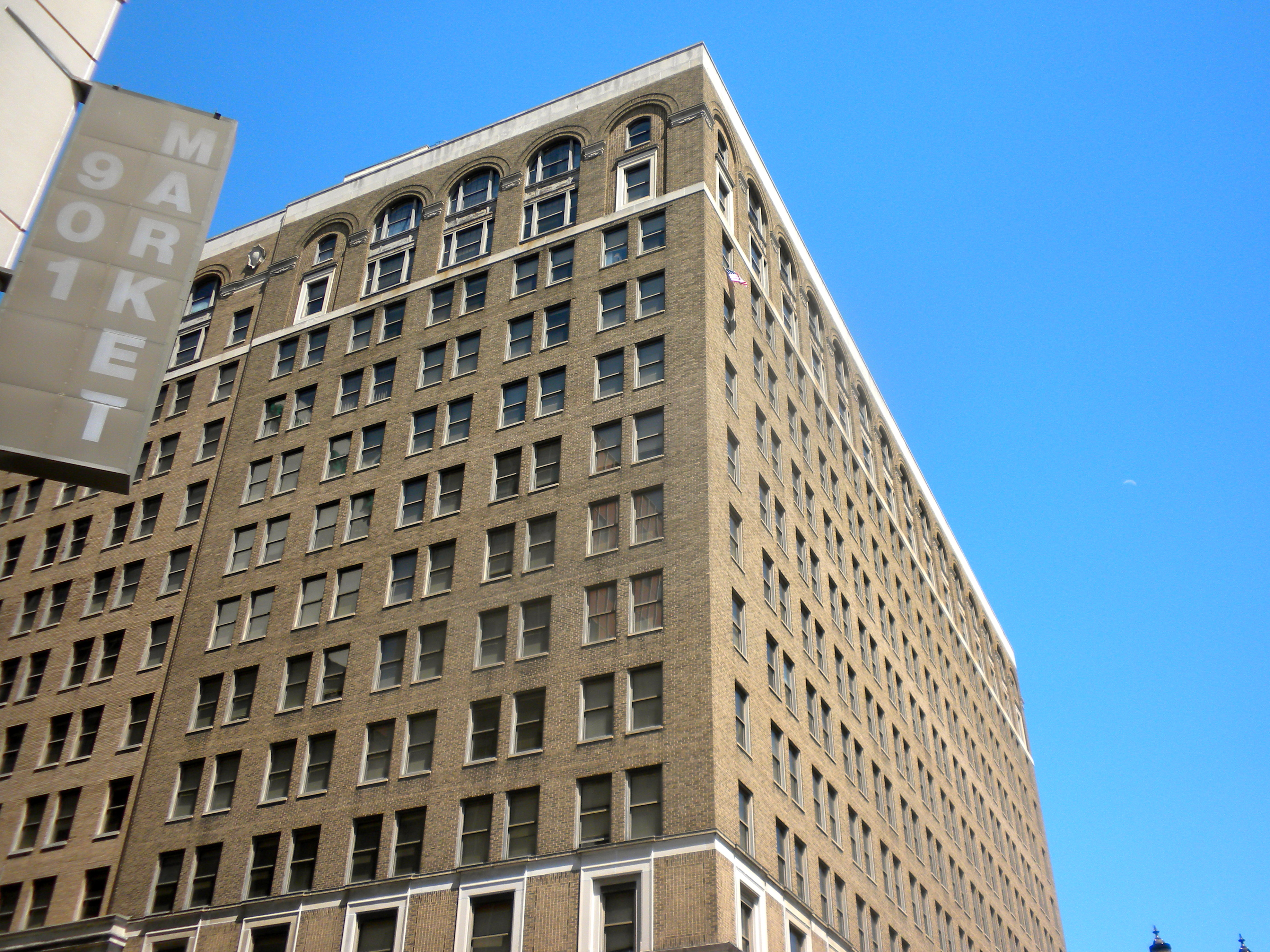 Delaware Trust Building on the NRHP since April 18, 2003. At 900-912 N. Market St., Wilmington, Delaware, now known as "Residences@Rodney Square"